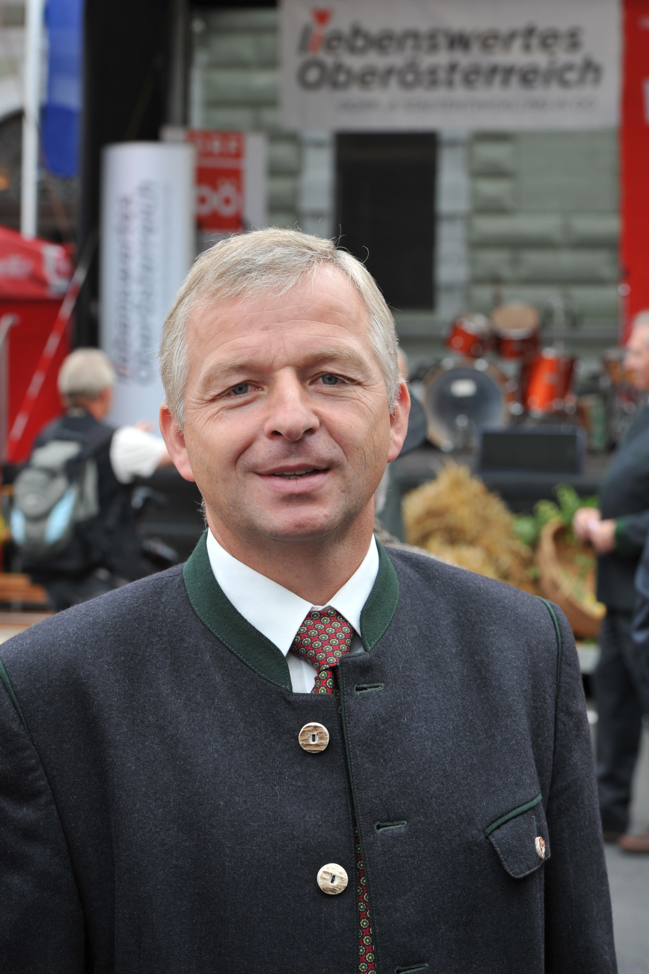 The making of this work was supported by Wikimedia Austria. For other files made with the support of Wikimedia Austria, please see the category Supported by Wikimedia Österreich. Nikolaus Prinz bei der Ortsbildmesse Perg 2012